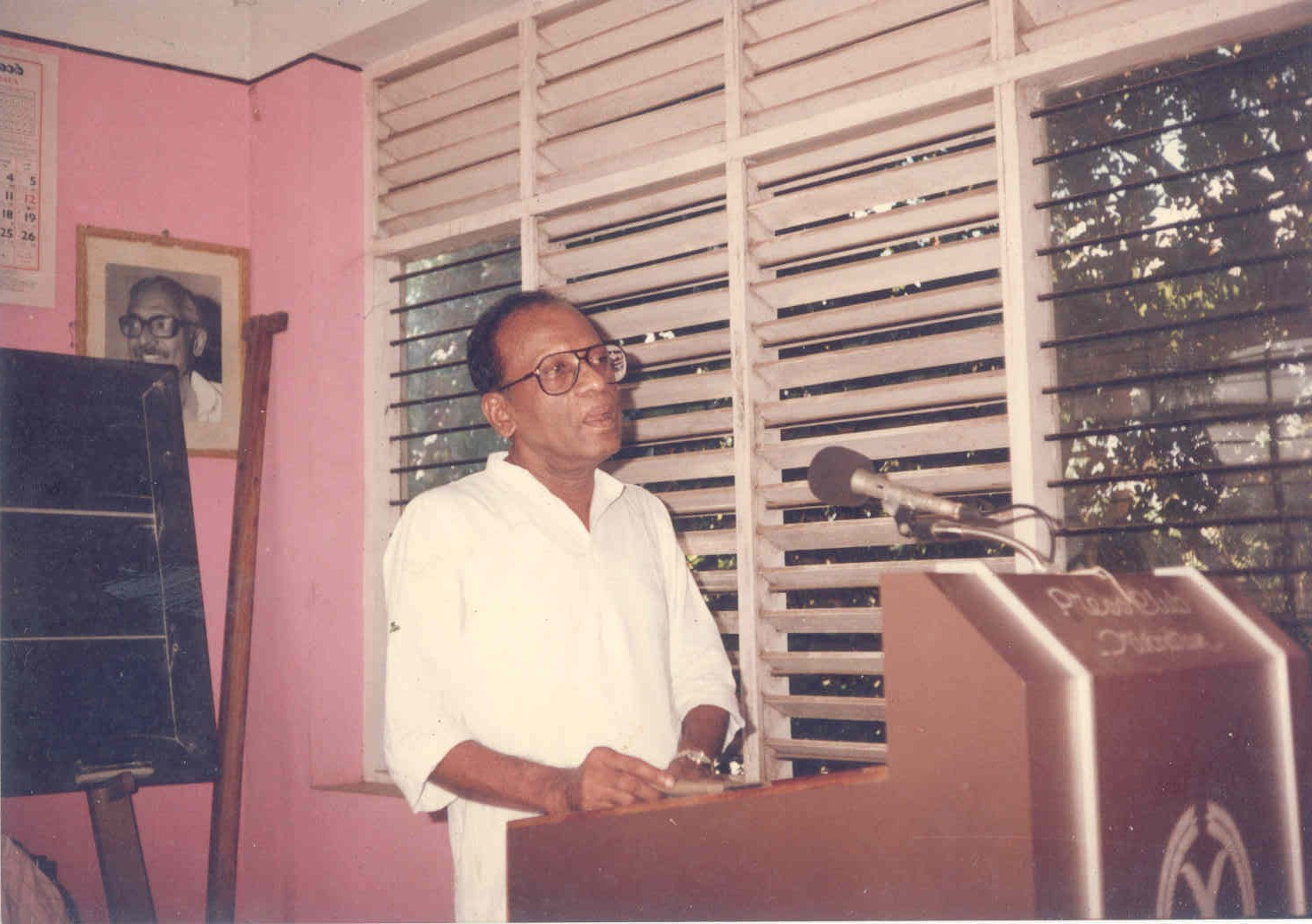 well known thinker living in kerala..giving his talk in the occasion of fokkana award distribution to ramesan blathur at thiruvananthapuram on 1993